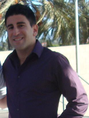 i took this picture at the LA Galaxy vs Philly game of alecko before he went into the booth